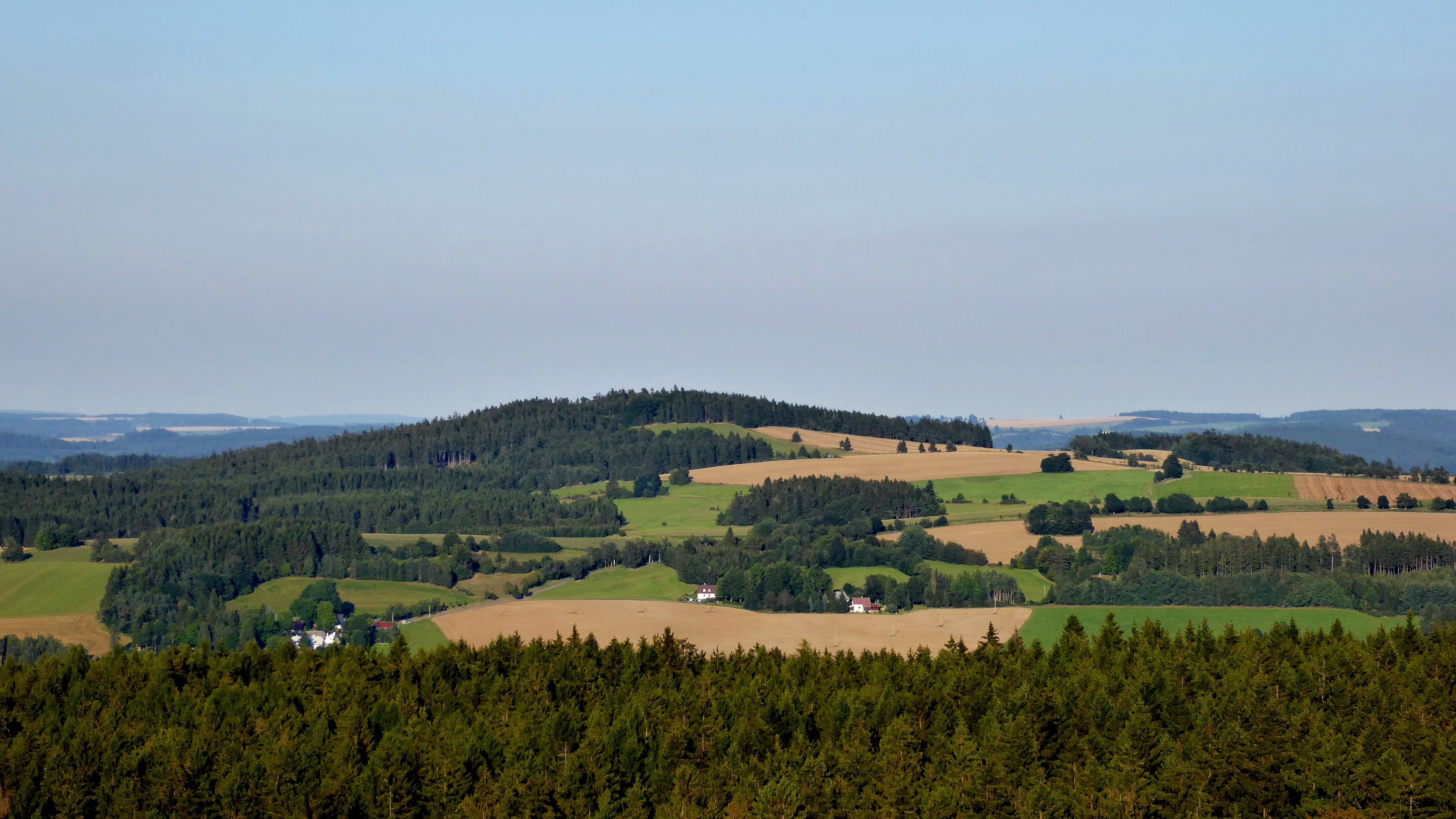 "Bohdalec" (hill 791 meters above sea level with a trigonometric point and 801 meters the unofficial measurement of the rock formation in 2016), An important point of "Žďárské" Hills. It lies on the border of the cadastrals of municipalities "Líšná" and "Odranec" in the "Pohledeckoskalská" Highlands. View of east-northeast direction (80°) from the top of the "Pasecká" Rocks (819 meters above sea level). Photo-location: Czechia, "Vysočina" Region, village "Studnice" (part of town "Nové Město na Moravě), Highlands of "Pohledeckoskalská".